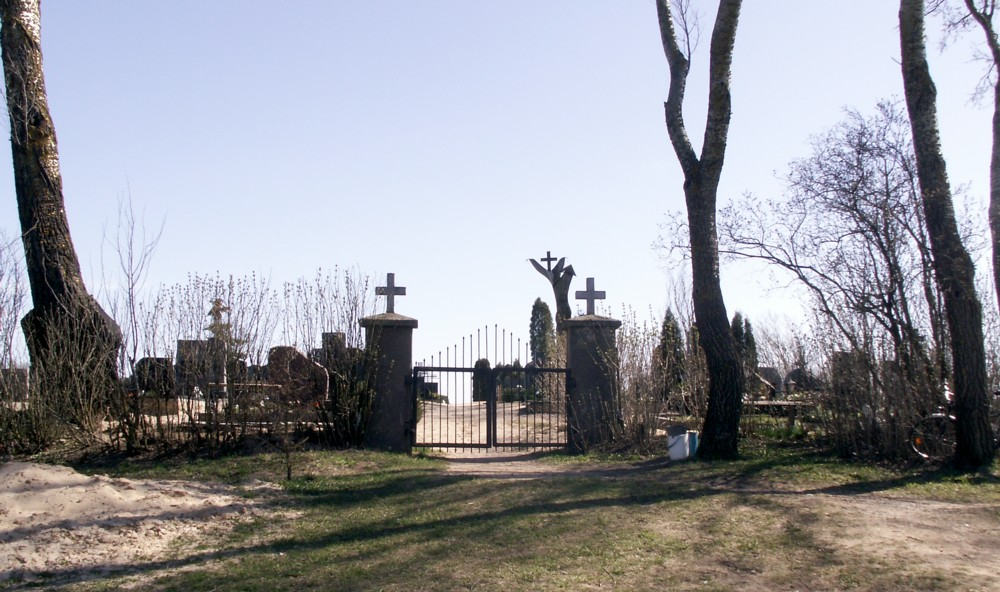 Verduliai, Šiauliai district, Lithuania